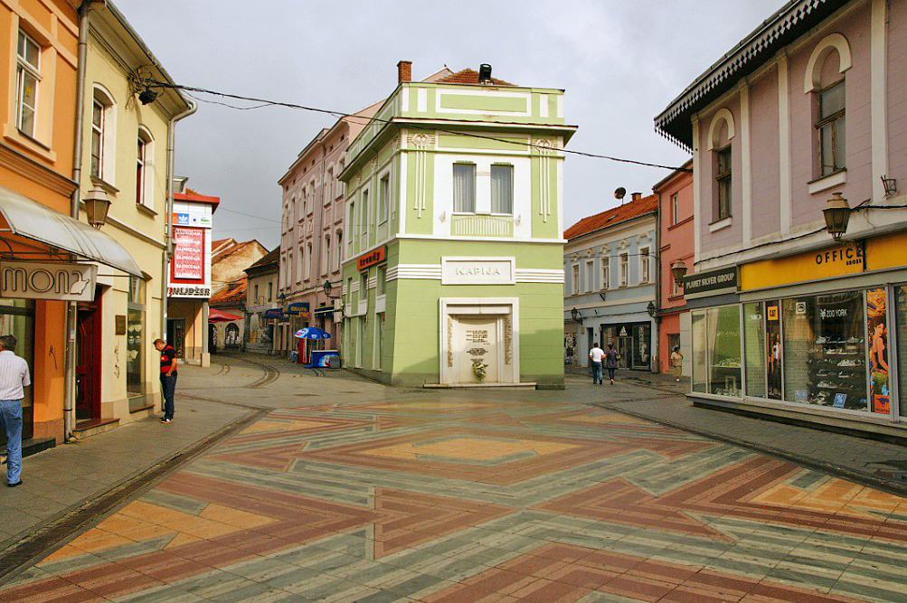 Picture of the Kapija place where a massacre of 72 people took place in 1995 through Serbian artillery fire